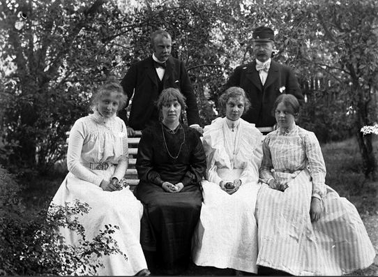 Norwegian painters at Norderhov Gård, Ringerike around 1899. From left: Ingeborg Motzfeldt (later married name Løchen), Oluf Wold-Torne, Kris Wold-Torne, Ragnhild (Lalla) Hvalstad, Gerhard Munthe and Johanna Bugge.